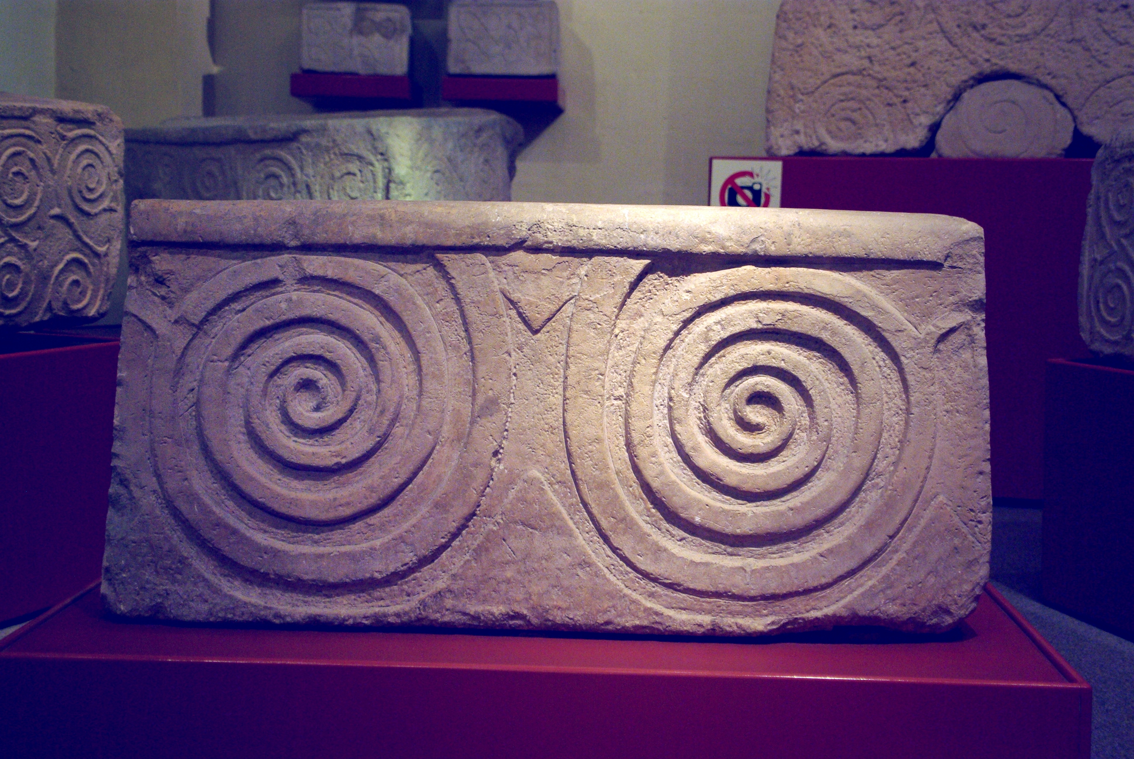 Malta Valletta, National Museum of Archaelogy